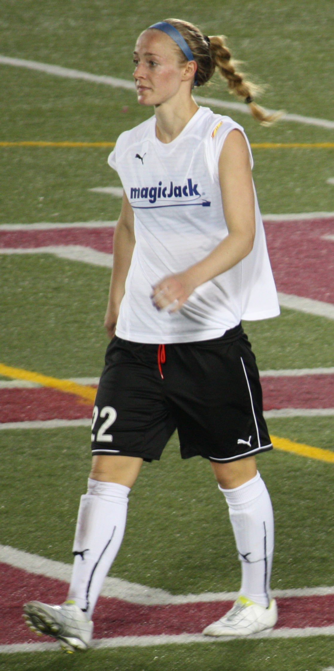 magicJack players strolling onto the field after halftime during magicJack's 2-0 win over the Boston Breakers, Saturday, August 6 at Harvard Stadium in Boston, Mass.